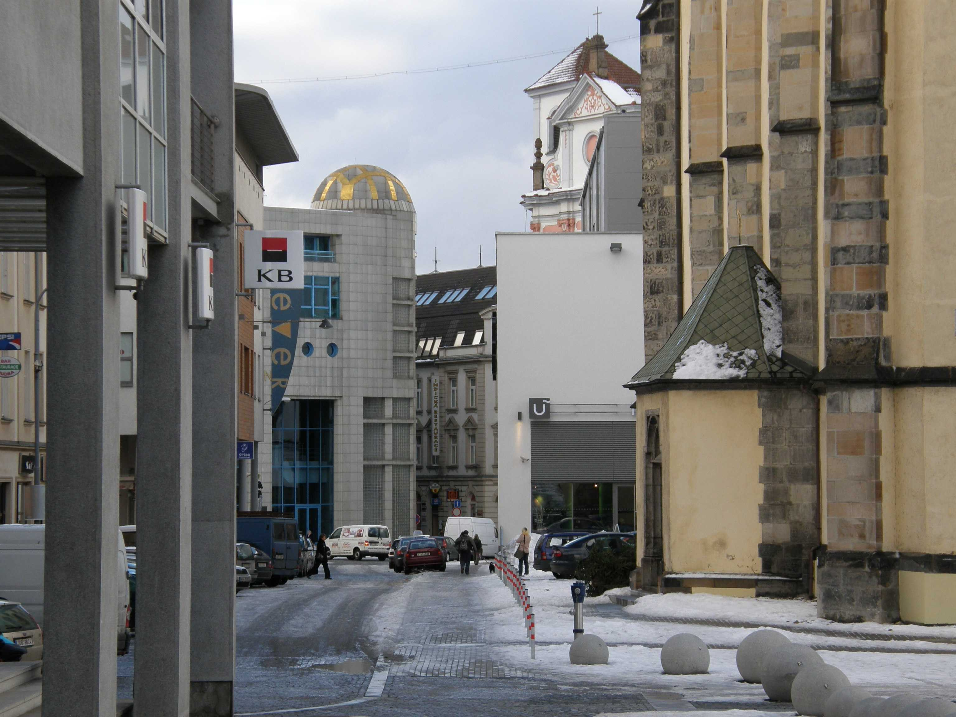 Ústí nad Labem city centre street.